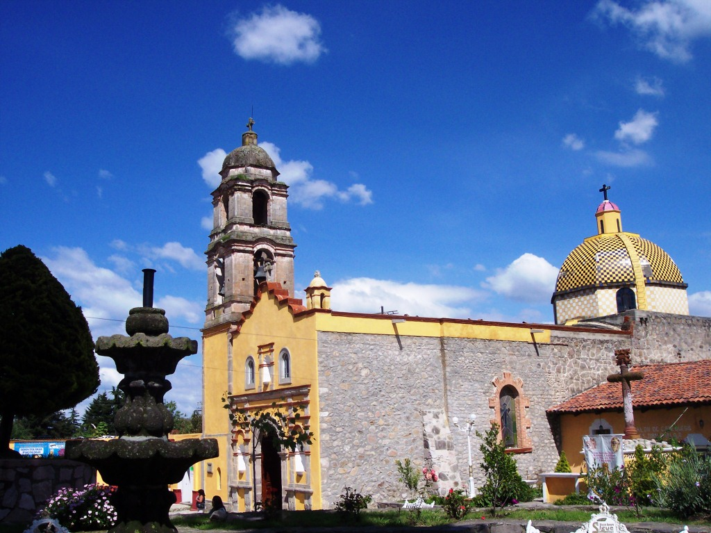 Santa María Magdalena Cahuacán